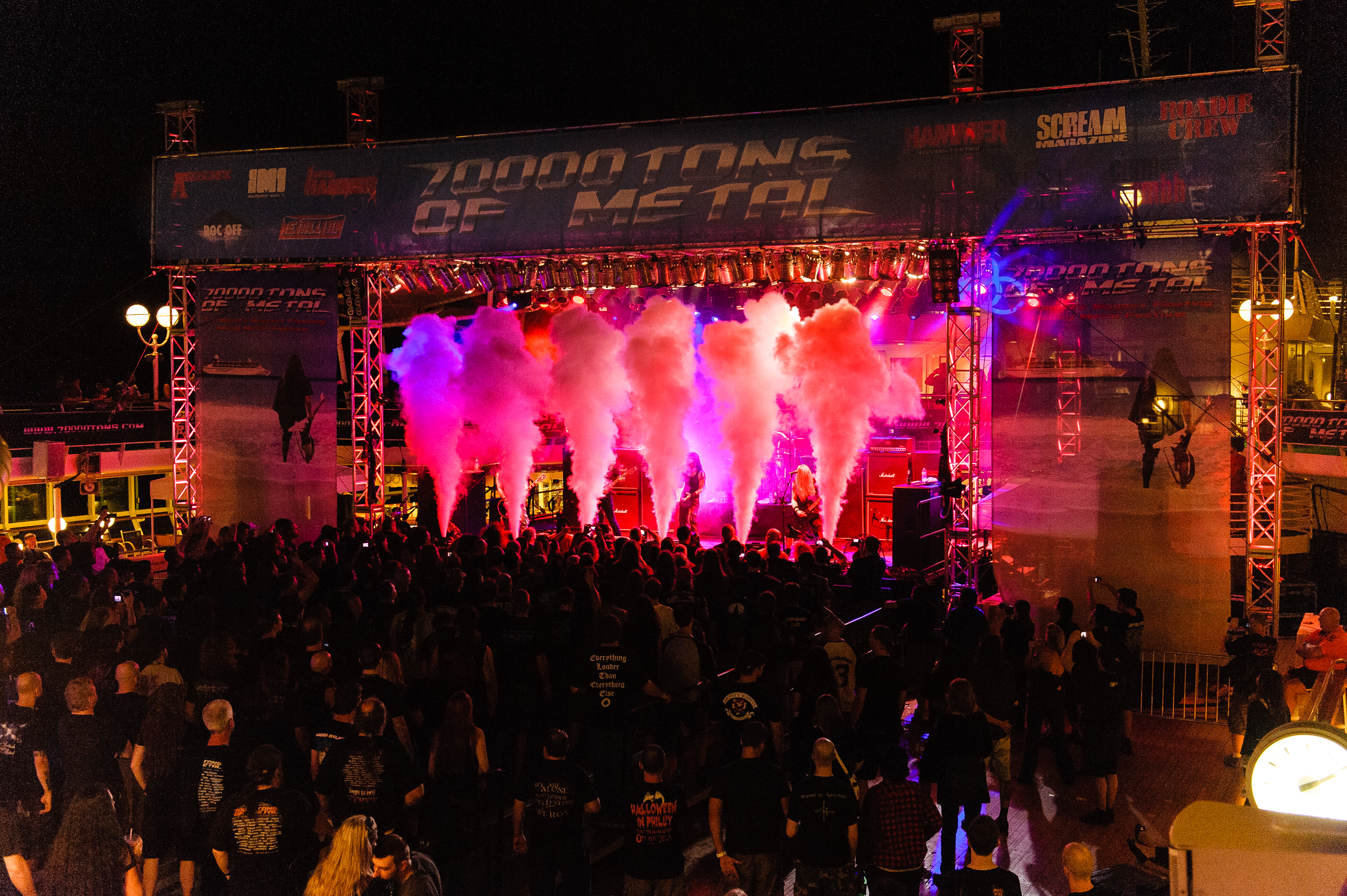 Pool Deck Stage 70000TONS OF METAL festival 2013